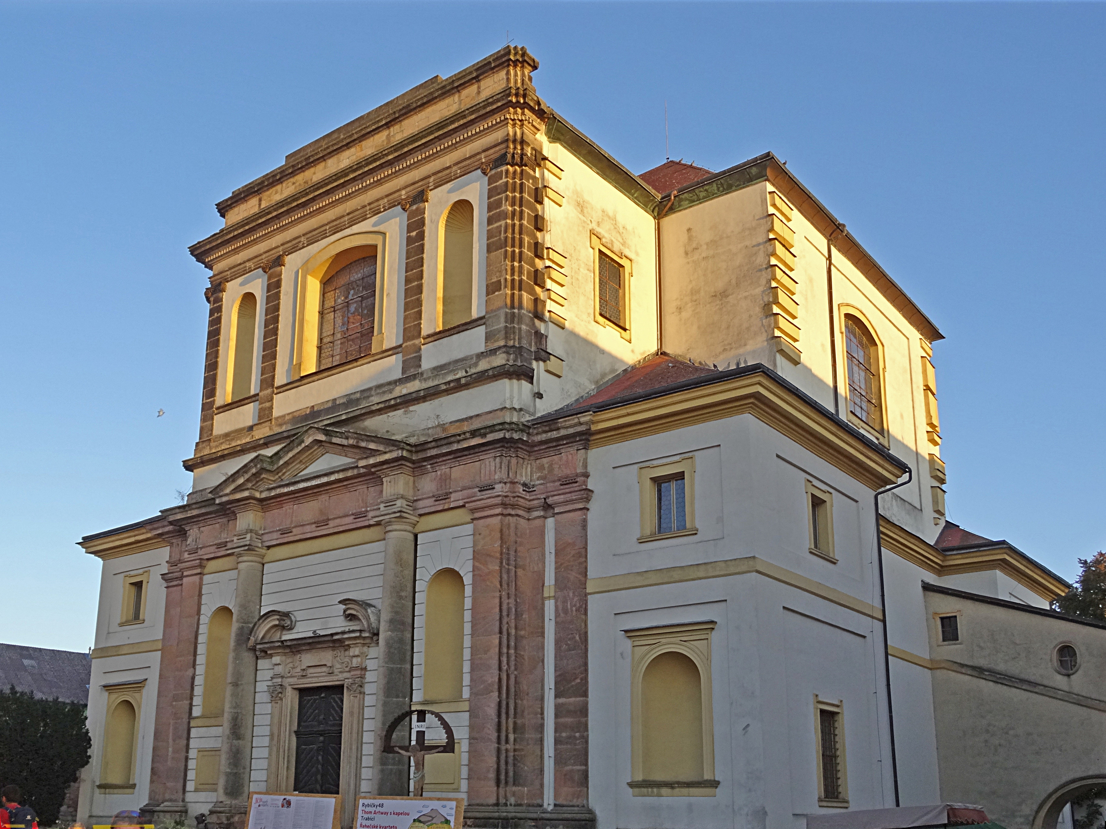 Church of Saint James the Greater in Jicín